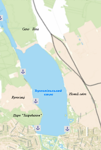 Ternopil Pond on the map